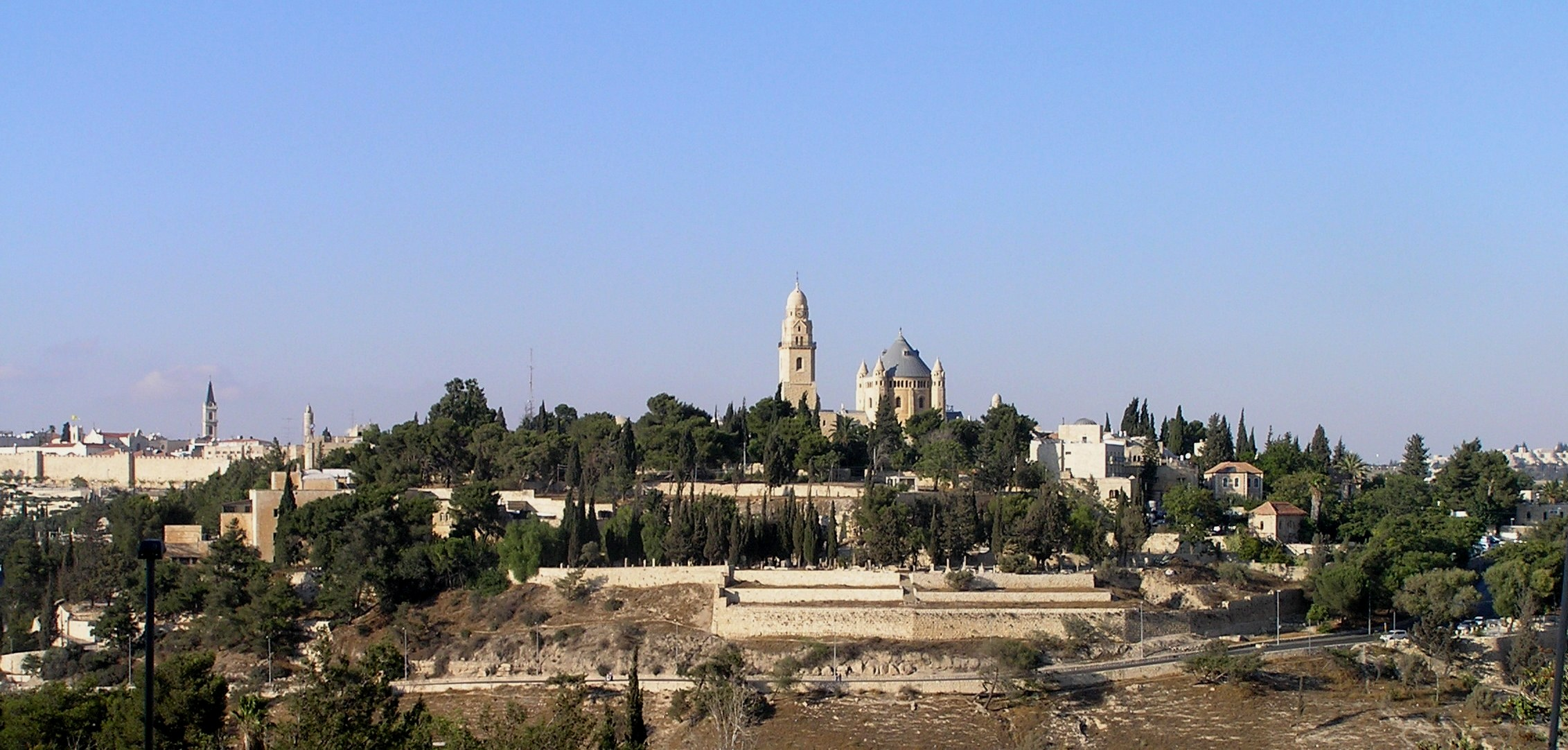 Mt. Zion, a view from Abu Tor